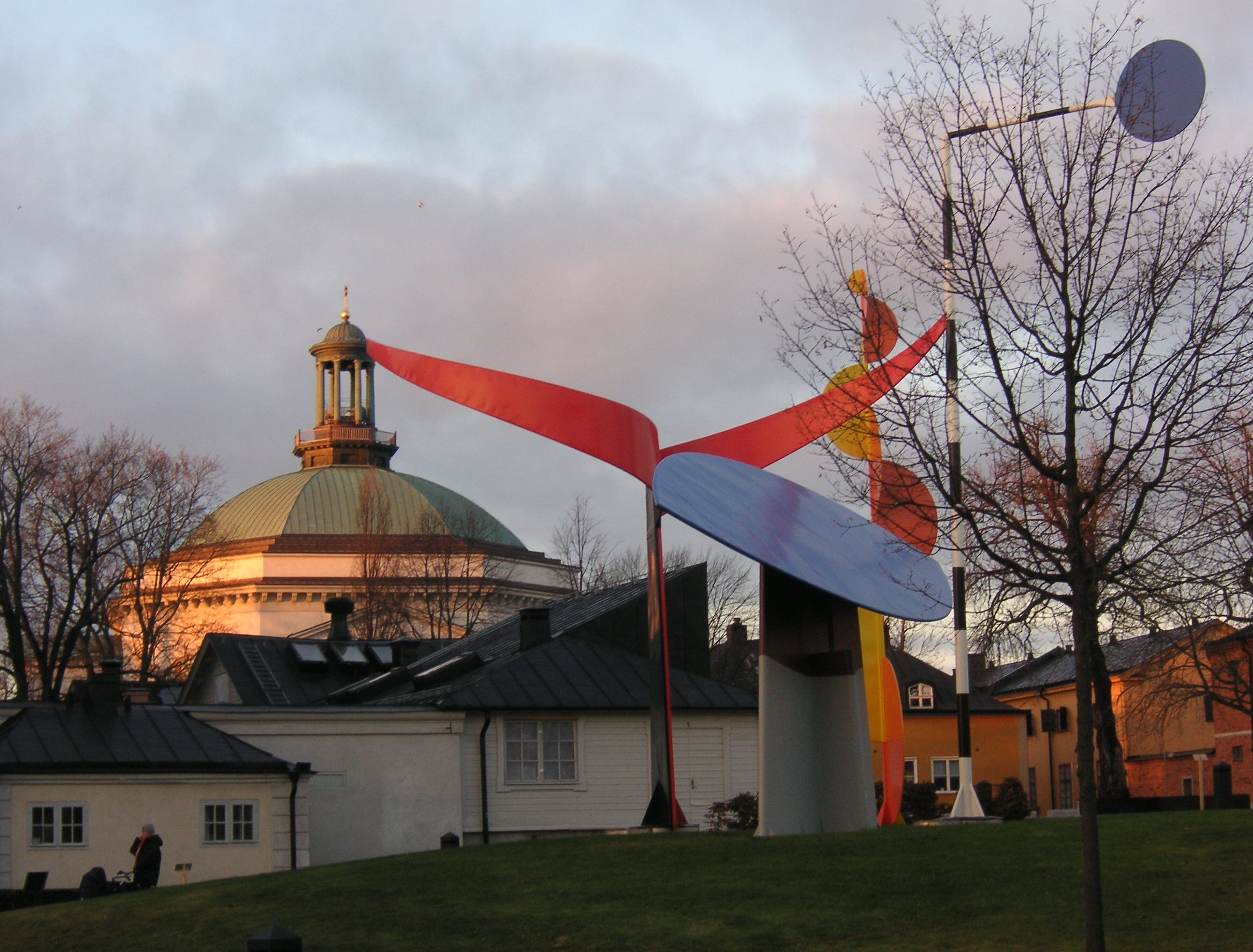 "The four Elements", sculpture by Alexander Calder, Stockholm